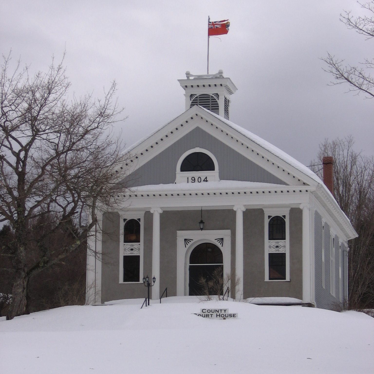 Courthouse, Albert County, New Brunswick, built 1904. It is part of the Albert County Museum complex in Hopewell Cape. It was designed by Watson Elkanah Reid of nearby Harvey and formerly a member of Reid & Reid of San Francisco.